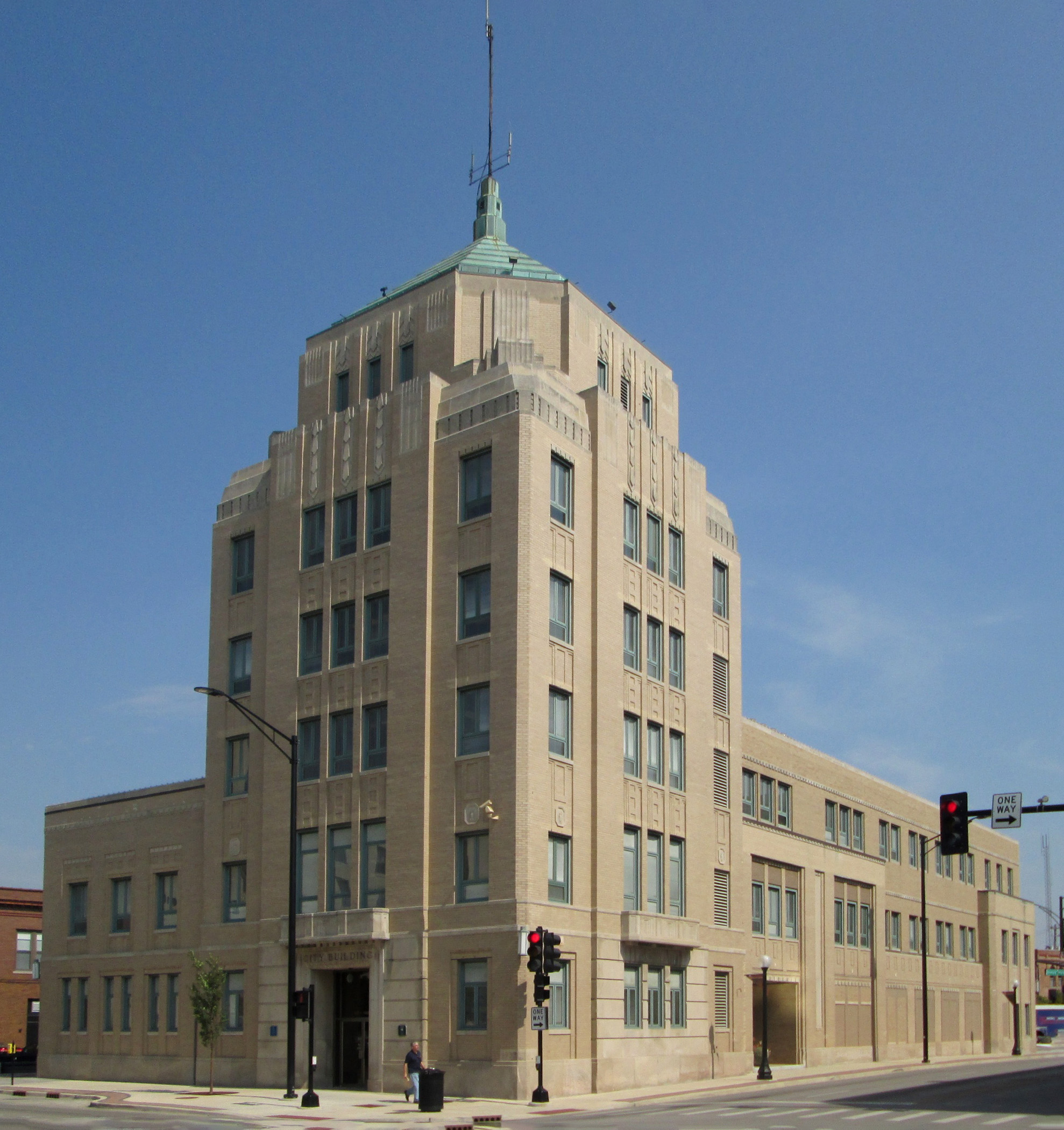 The City of Champaign's City Building, located at 102 N. Neil Street in Champaign, Illinois, was built in 1935-37 and was designed by George Ramey in the Art Deco style. (Source: [1])